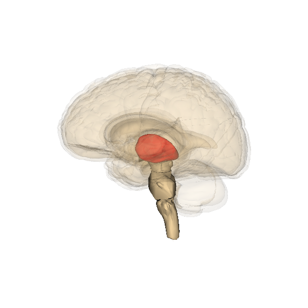 thalamus. Images are from Anatomography maintained by Life Science Databases(LSDB).